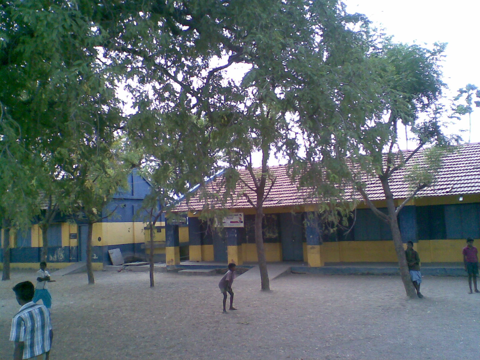 school